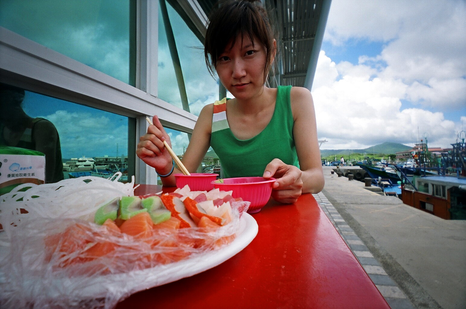 Kenting